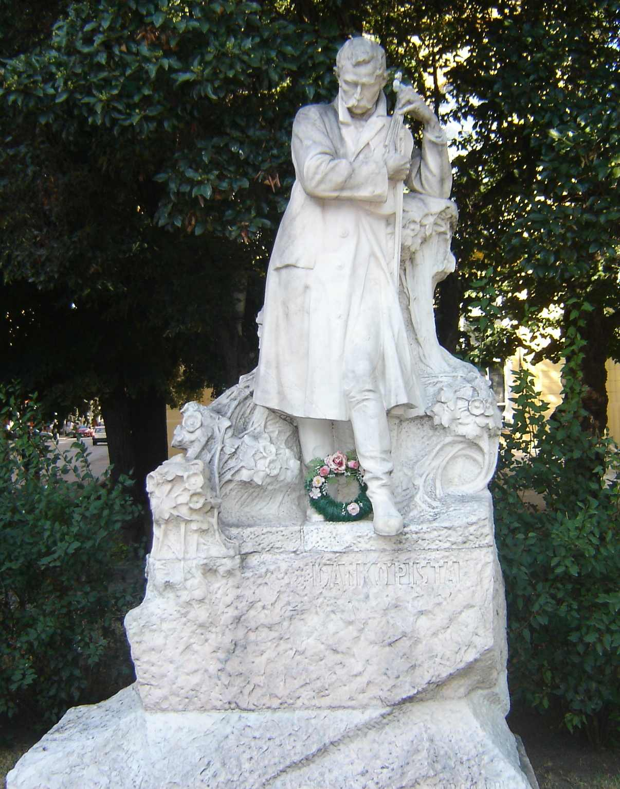 Pista Dankó. Sculpture by Margó Ede.